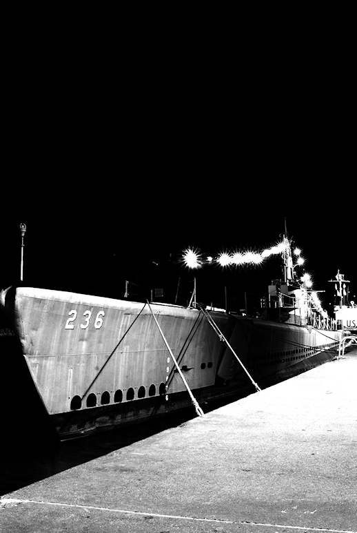 The USS Silversides (SS-236) at Muskegon, Michigan, United States.